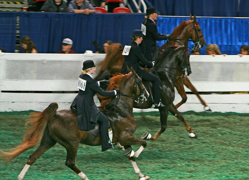 Images by Heather Abounader